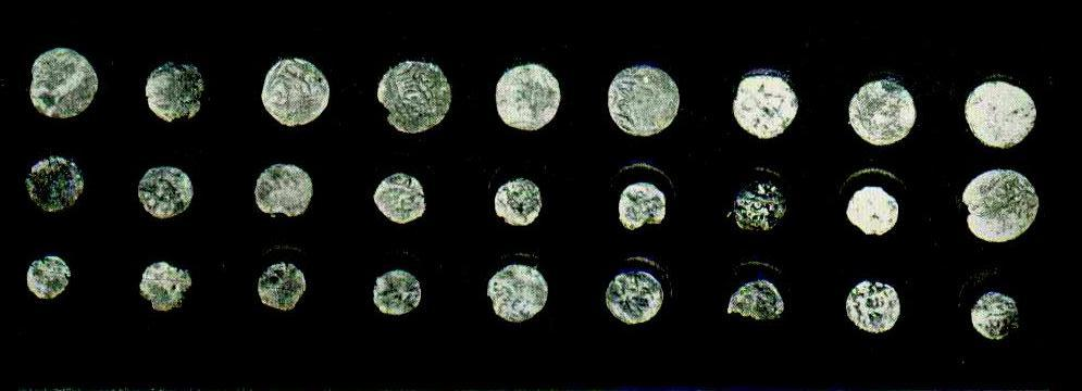 (Horizontal version) Medieval Mogadishan coins, Somalia Museum